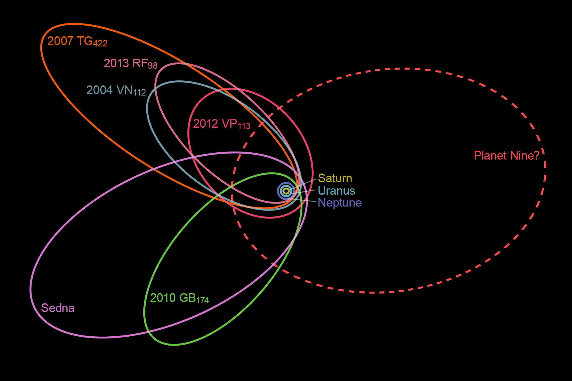 The unusually closely spaced orbits of six of the most distant objects in the Kuiper Belt indicate the existence of a ninth planet whose gravity affects these movements.